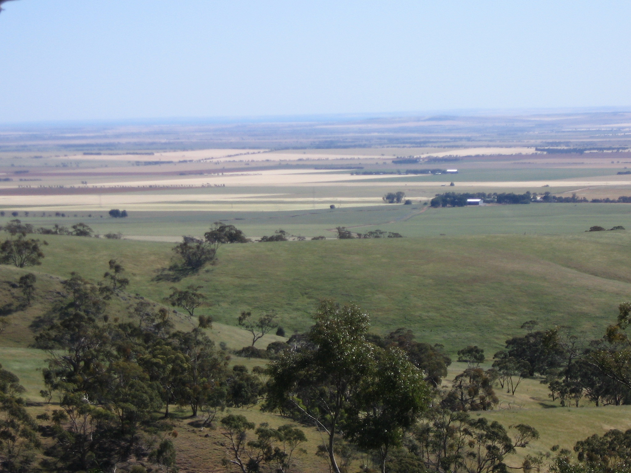 View of the Adelaide Plains from Spring Gully Conservation Park. Photo taken by Scott Davis 5 November 2005